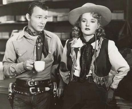 Roy Rogers and Phyllis Brooks in Silver Spurs (1943) - cropped screenshot (original image : see source)